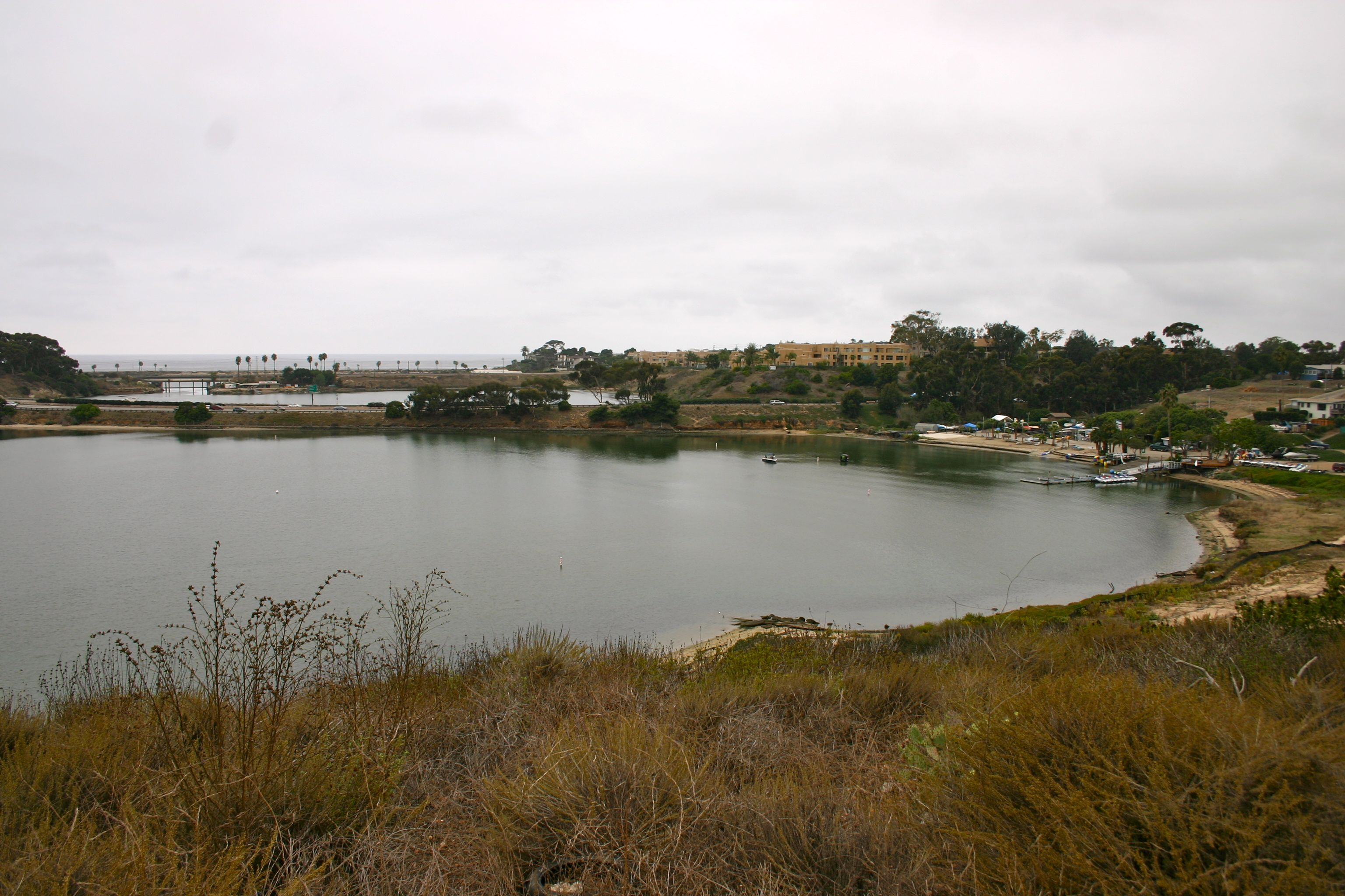 Looking to the west across the middle of Agua Hedionda Lagoon. Located on the coast in Carlsbad, San Diego County, Southern California. From near to far can be seen the I-5, the Coaster line, and Historic Route 101.